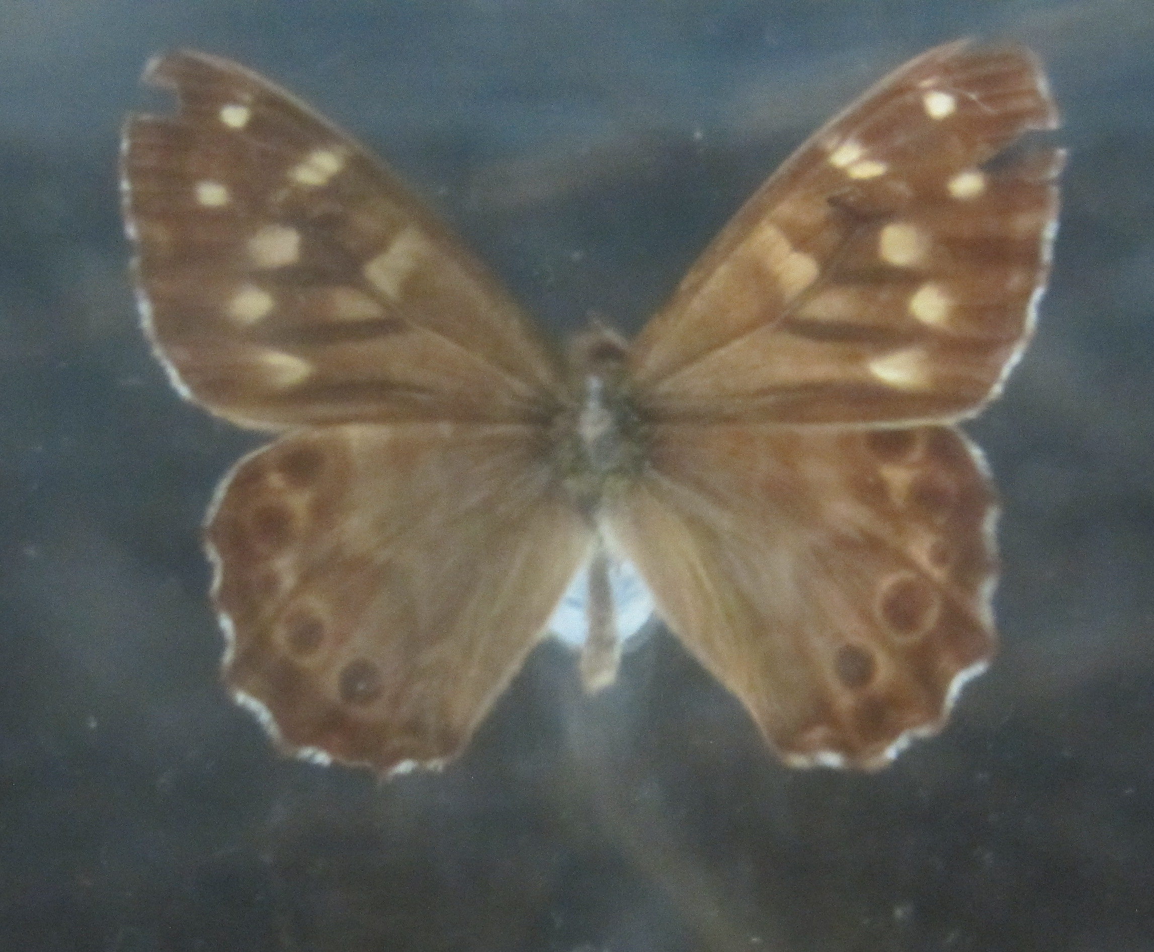 Specimen of Zophoessa niitakana